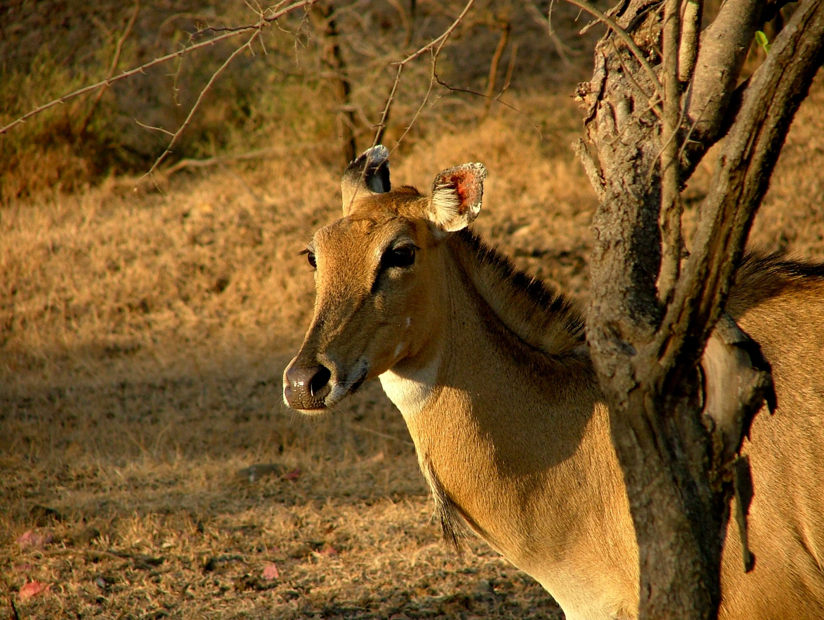 Nilgai antelope (Boselaphus tragocamelus) at Sasan Gir Forest, Gujarat (India)